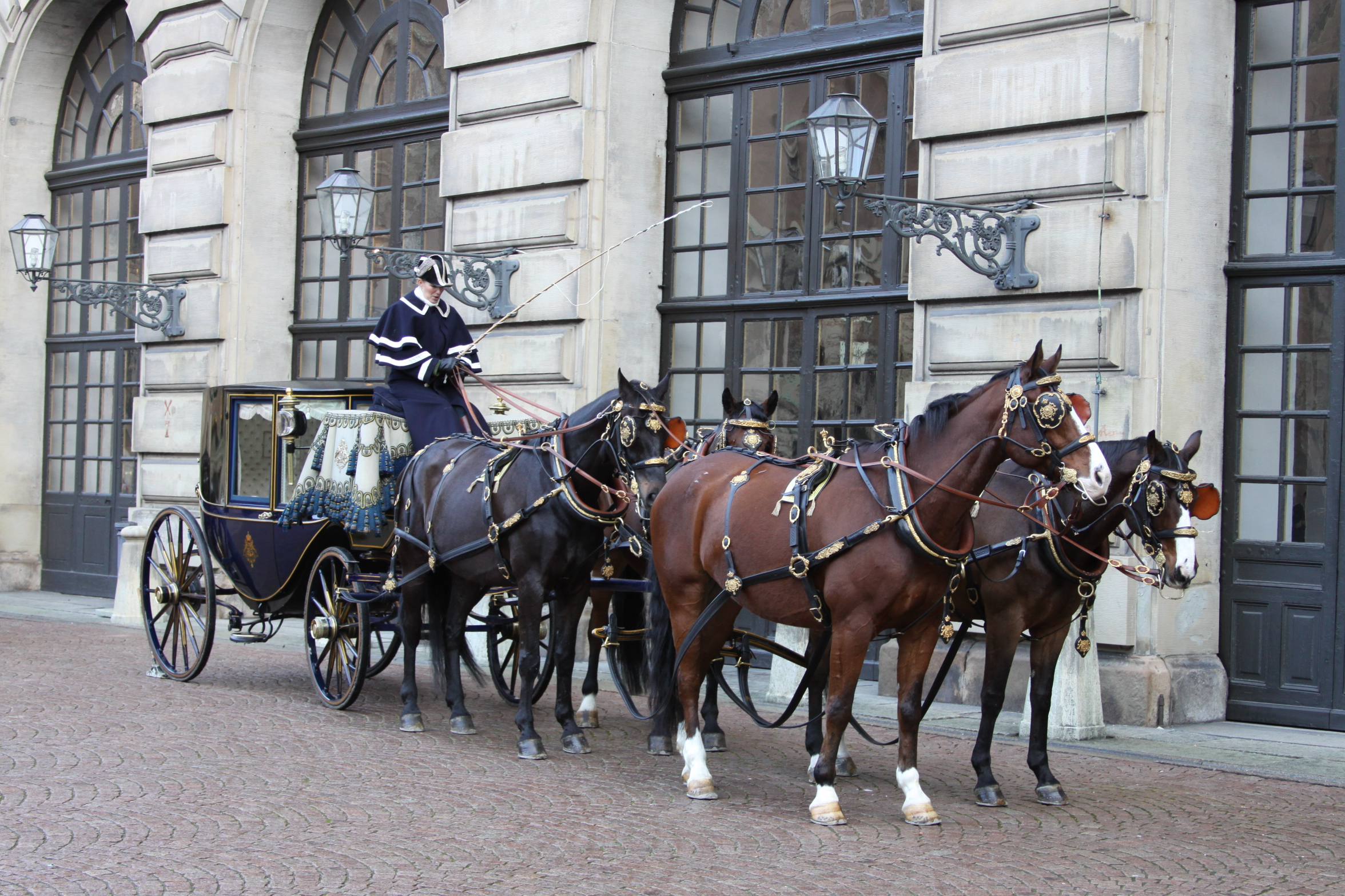 US Ambassador to Sweden, Mark Brzezinski, presents his credentials to Carl XVI Gustaf, King of Sweden at the Royal Palace in Stockholm. The ambassdor was transported in Charles XV parade coupé.